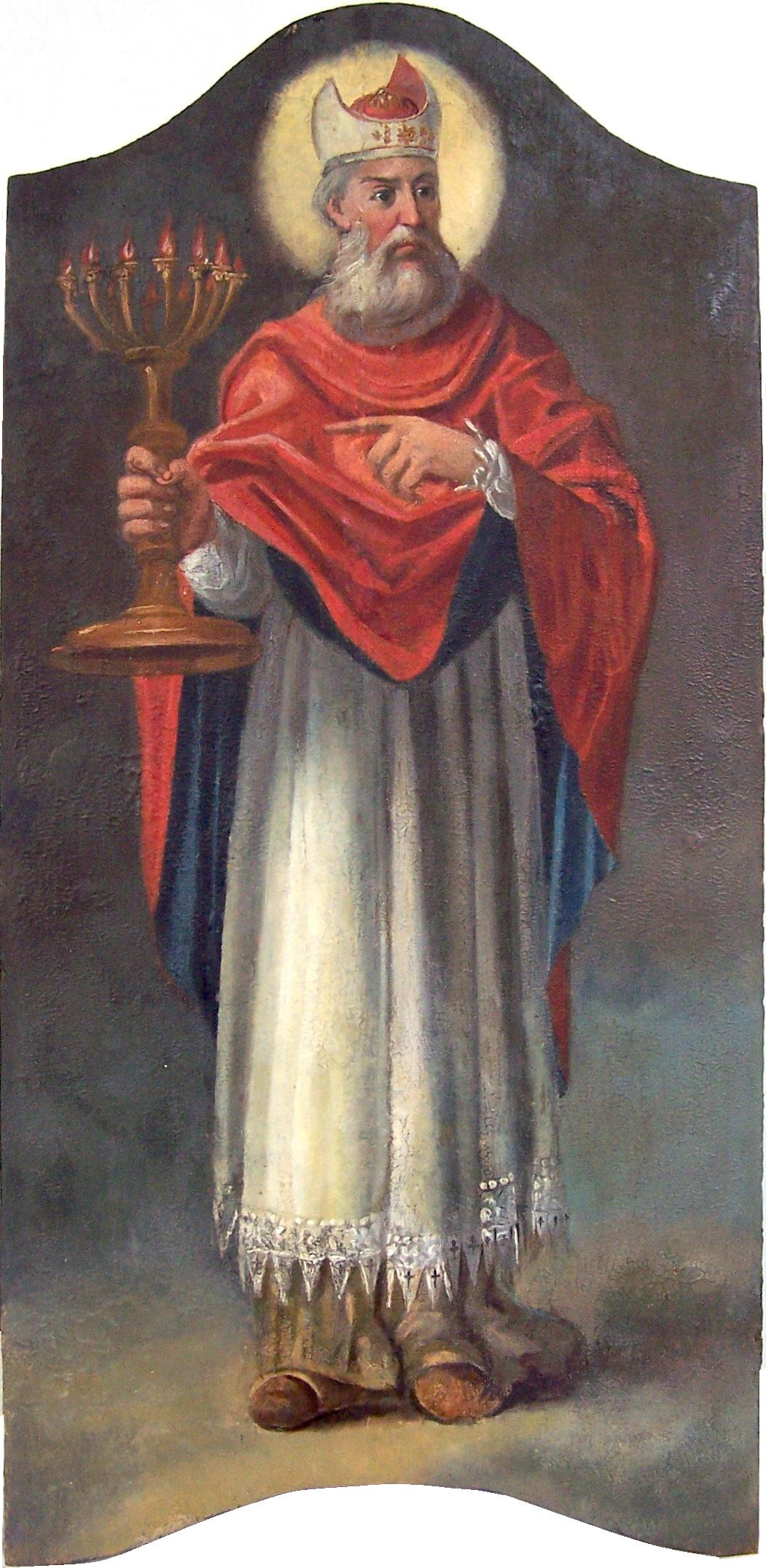 The picture is a Greek Catholic icon depicting the prophet Zechariah as a high priest. The icon was painted in the end of the 18th century as part of the iconostasis of the Greek Catholic Cathedral of Hajdúdorog, Hungary. Zechariah's icon is placed on the third tier of the iconostasis, the so called Prophets tier. This icon is the second painting from the left.